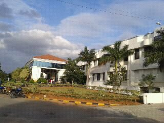 PES Institute of Medical Sciences hospital, Kuppam, India